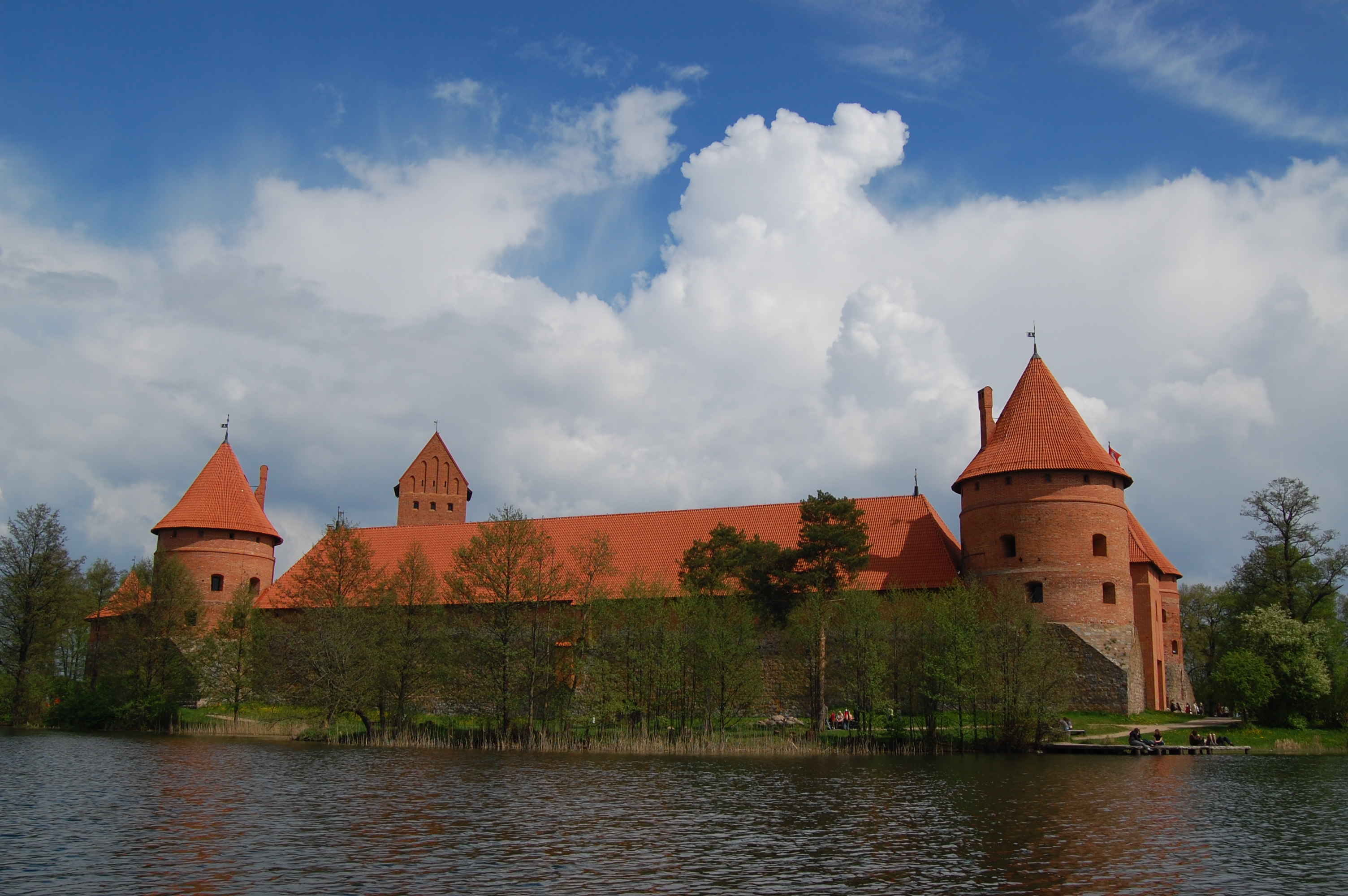 Trakai Island Castle, Trakai, Lithuania